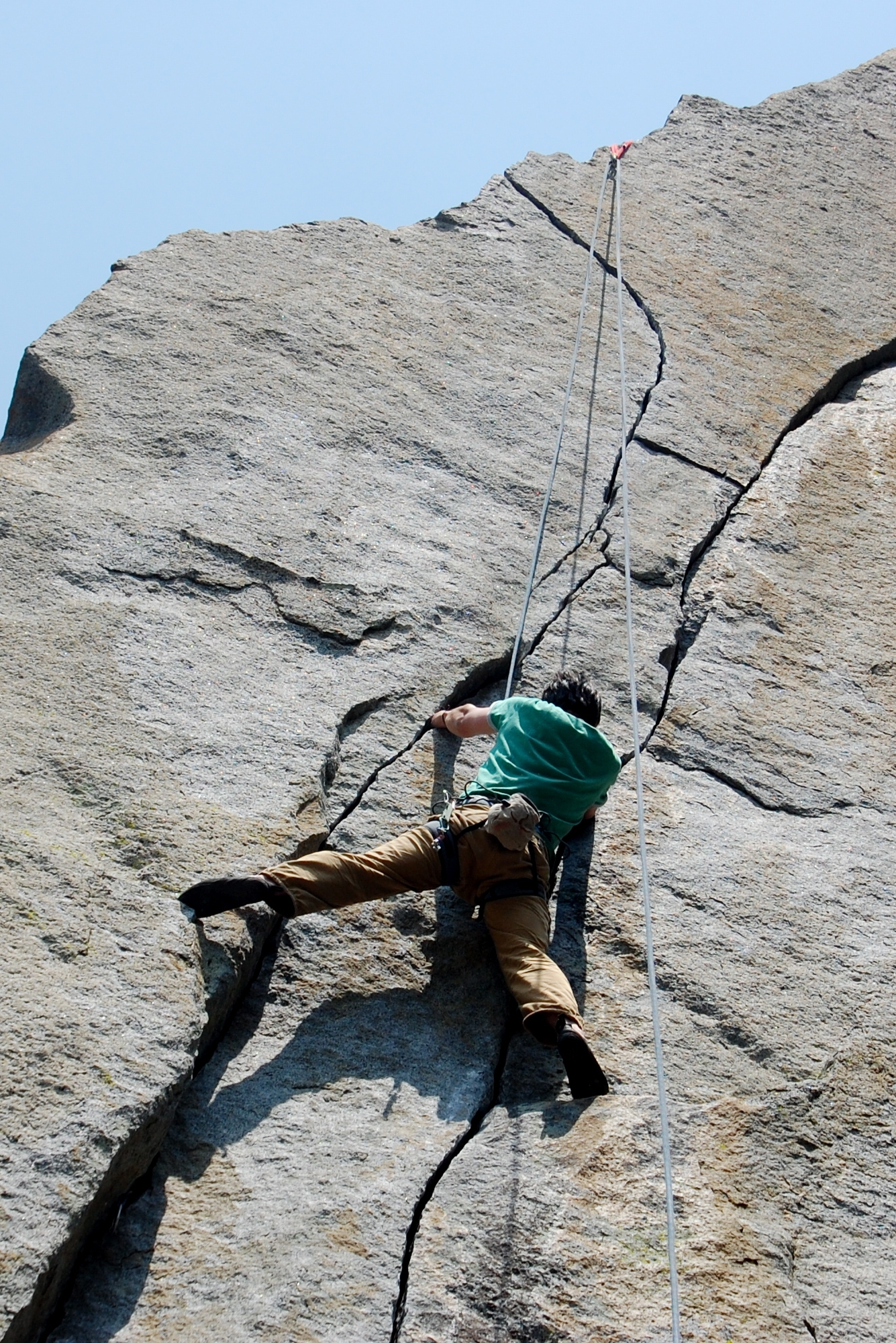 Climbing in Eagle Lake Cliff - Lake Tahoe, California